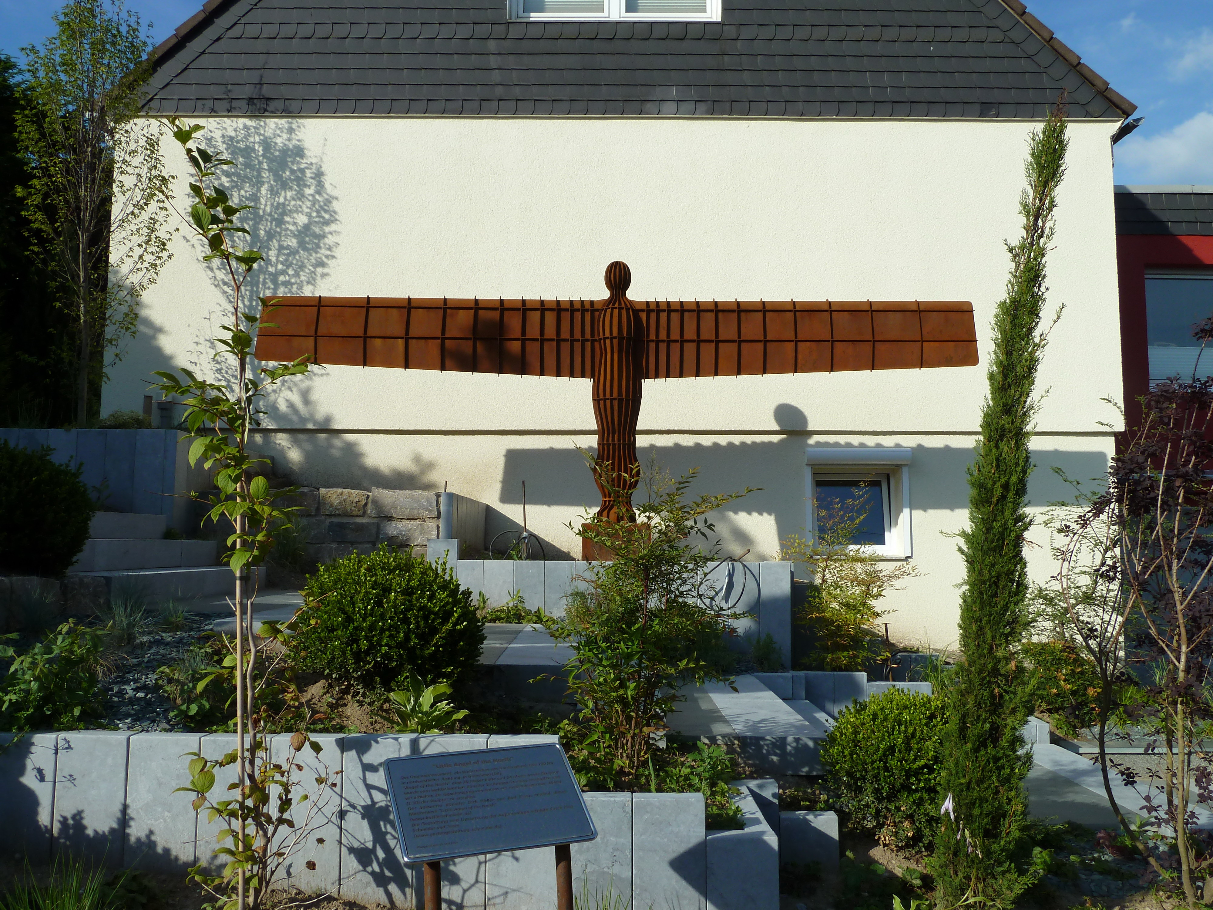 Little Angel of the North, Wuppertal